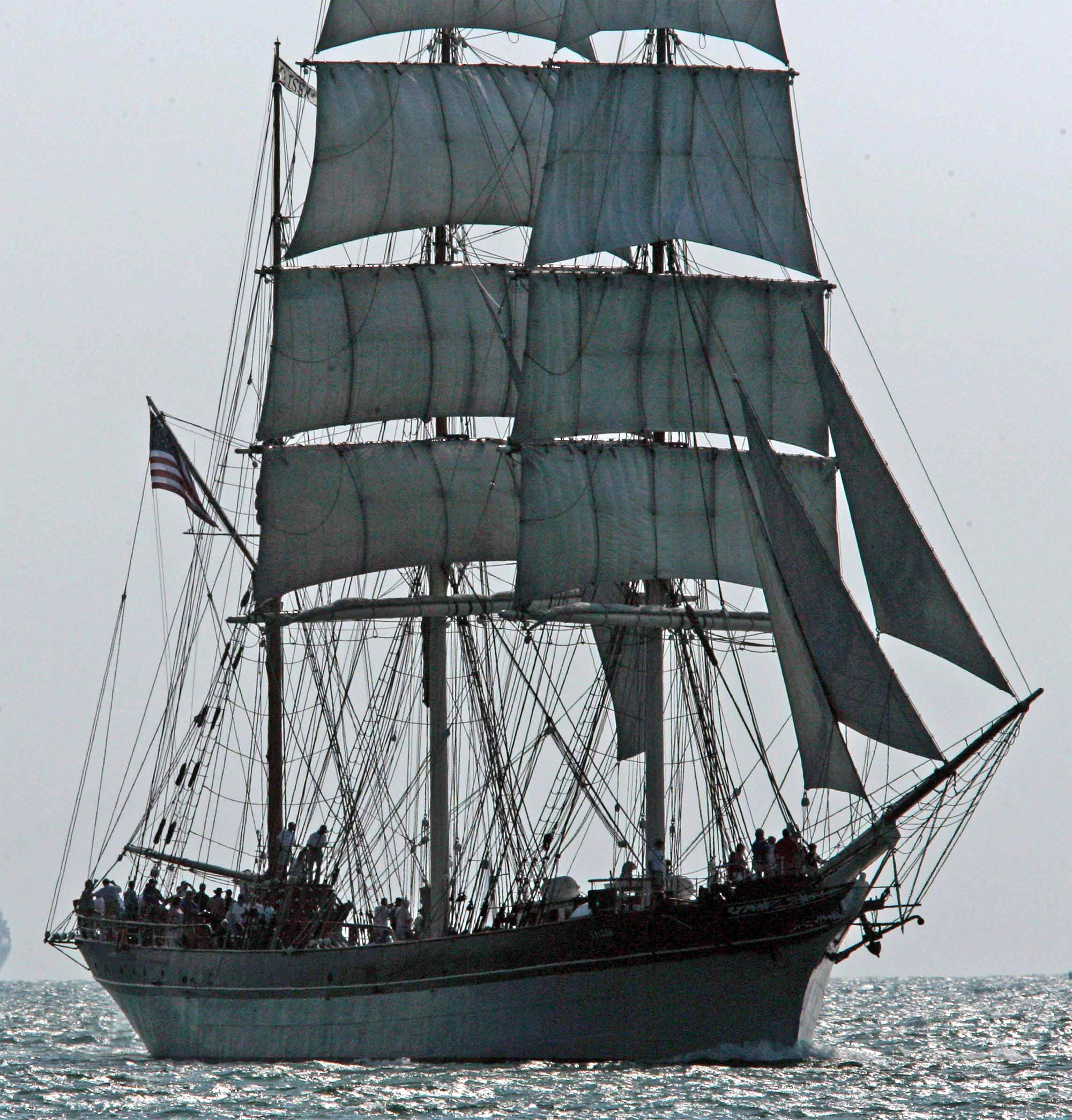 The tall ship Elissa, which has sailed in three centuries, sails up the channel into Port Galveston, Texas.